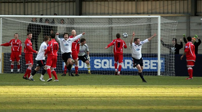 Hyde footballer Steve Halford scores against Stafford Rangers in 2011.